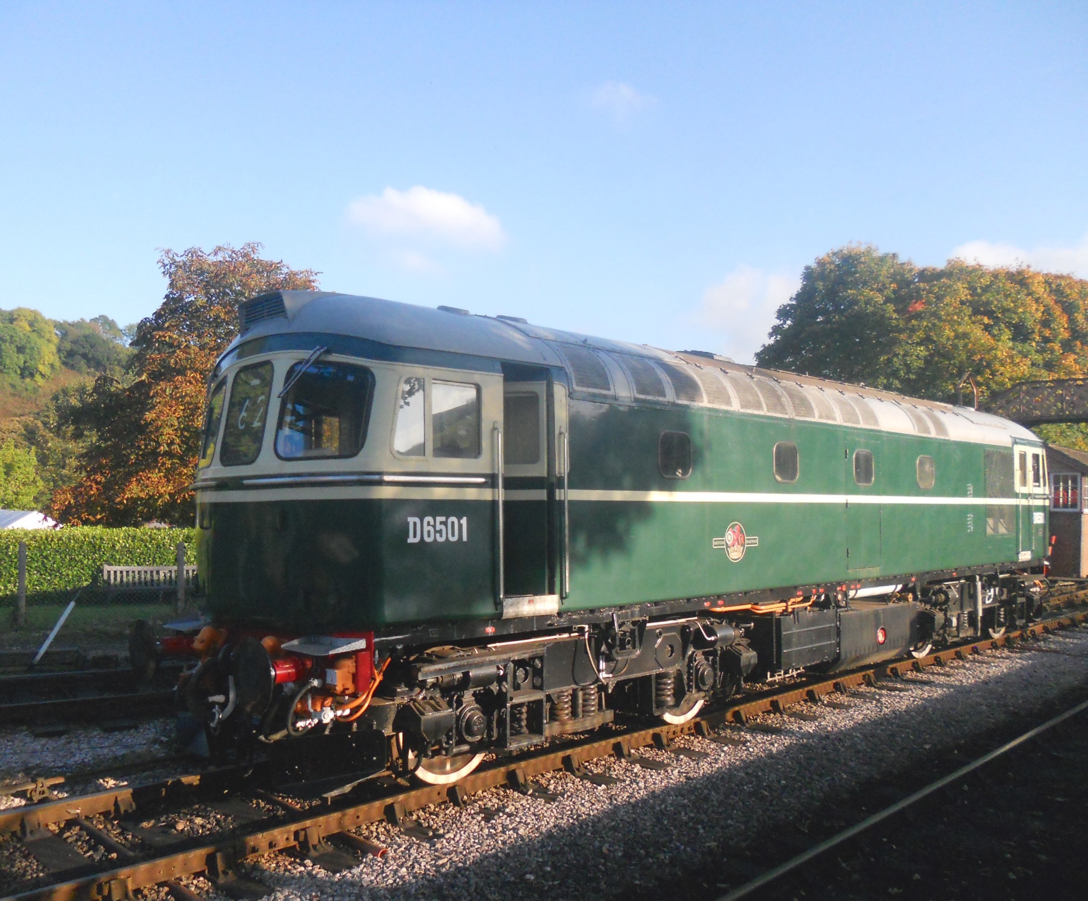 British Railways Class 33 D6501 runs round the train at Buckfastleigh on the South Devon Railway